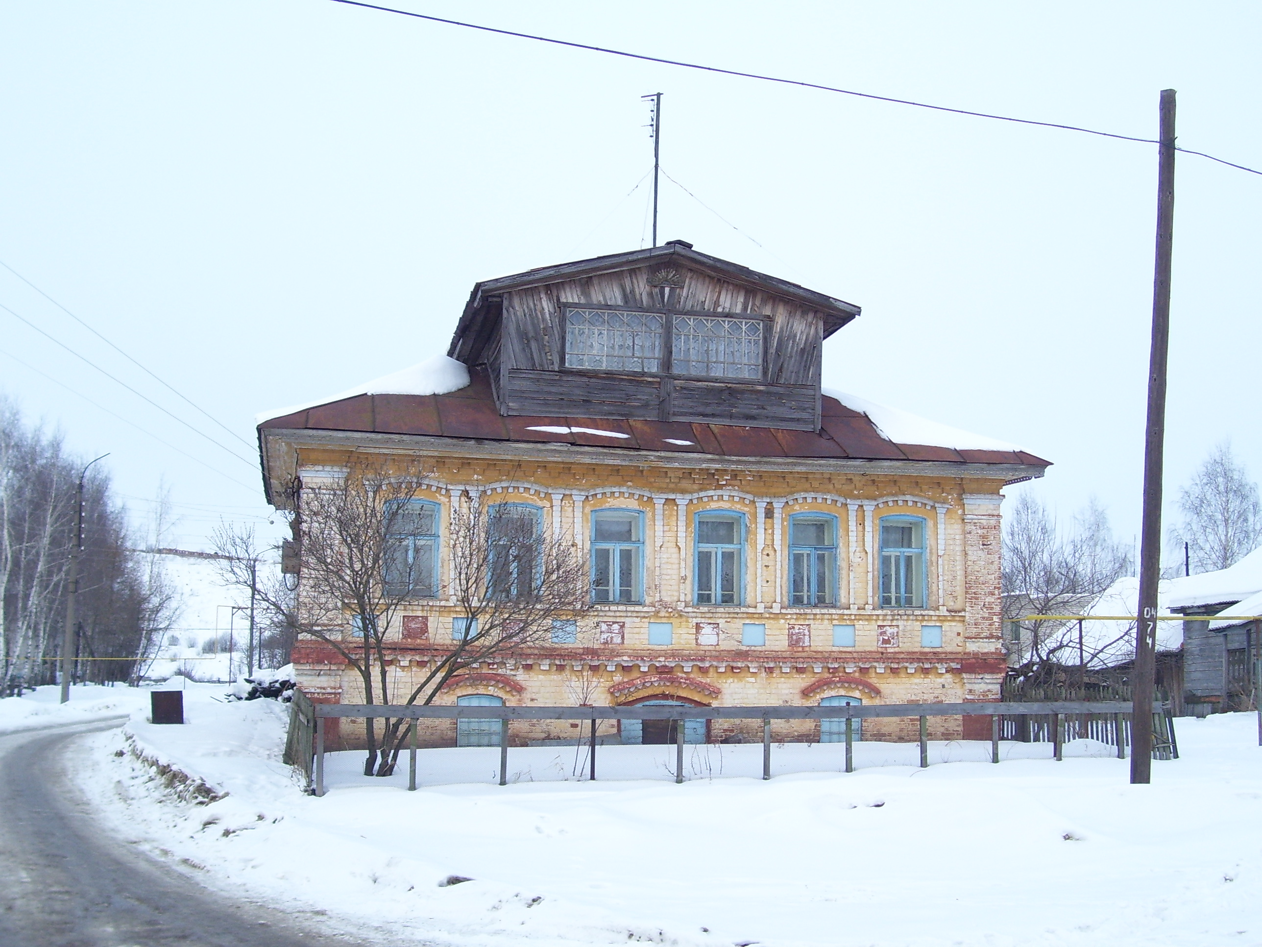 Центр села.